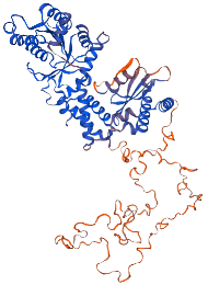 SRPR structure